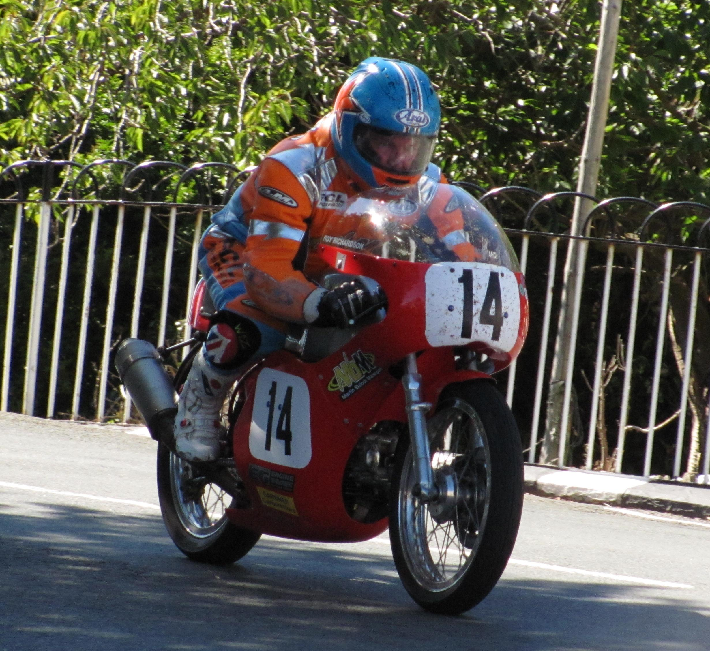 Manx Grand Prix 2010